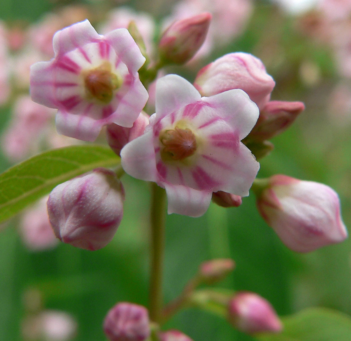 Apocynum androsaemifolium var. androsaemifolium alongside the first part of the South Loop trail, Kyle Canyon, Spring Mountains, southern Nevada (elev. about 2400 m)